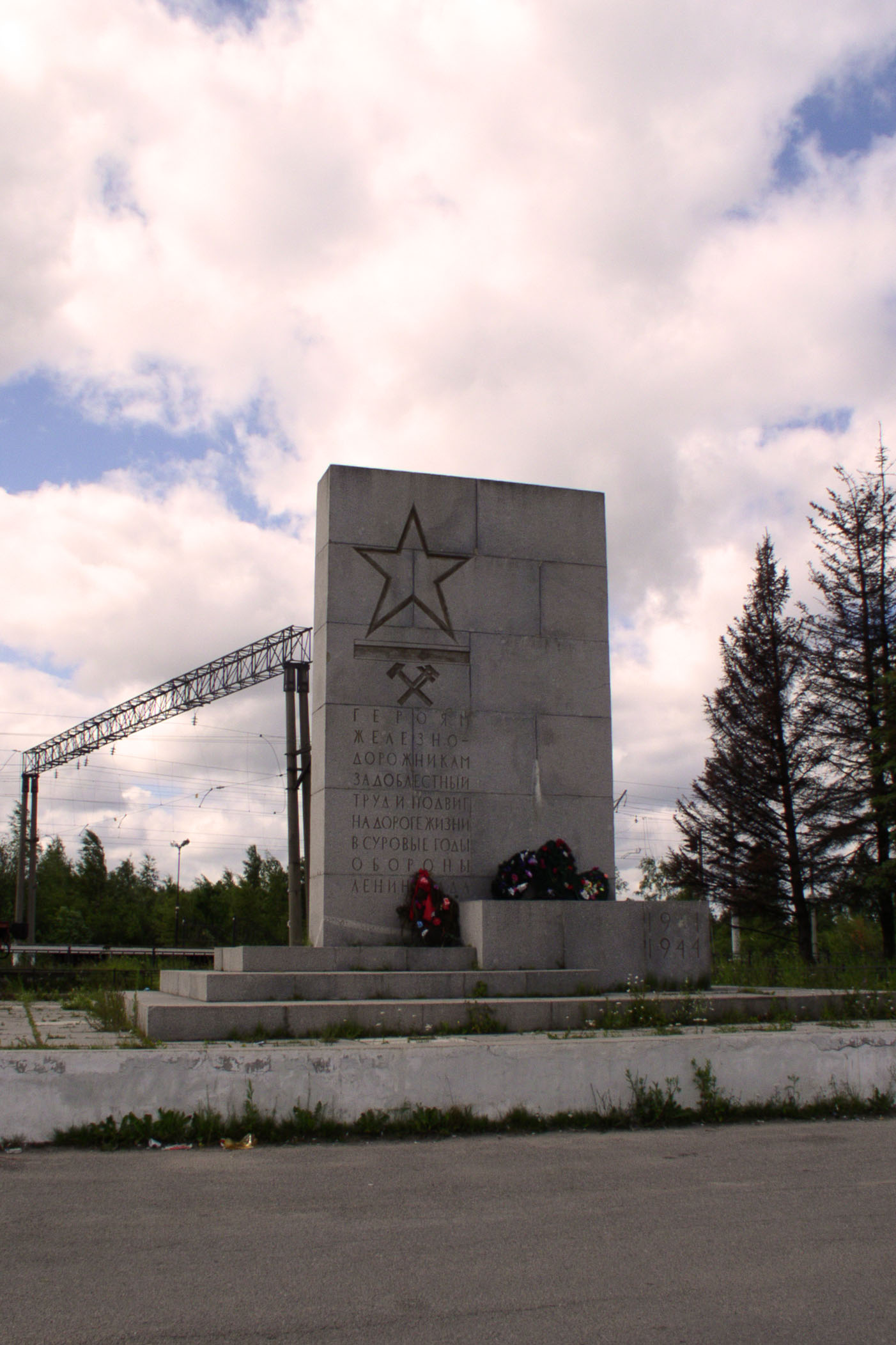 The stele «Steel Way» near Petrokrepost railway station in Leningrad Oblast. This is one of monuments included in the memorial complex Green Belt of Glory.